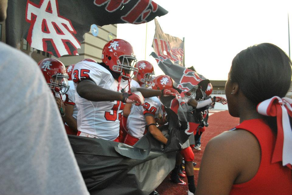 The Alief Taylor football Team Running onto the field